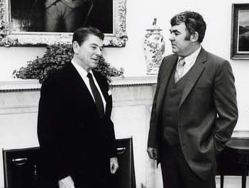 William Robert Casey, Jr. and Ronald Reagan in Oval Office in 1982